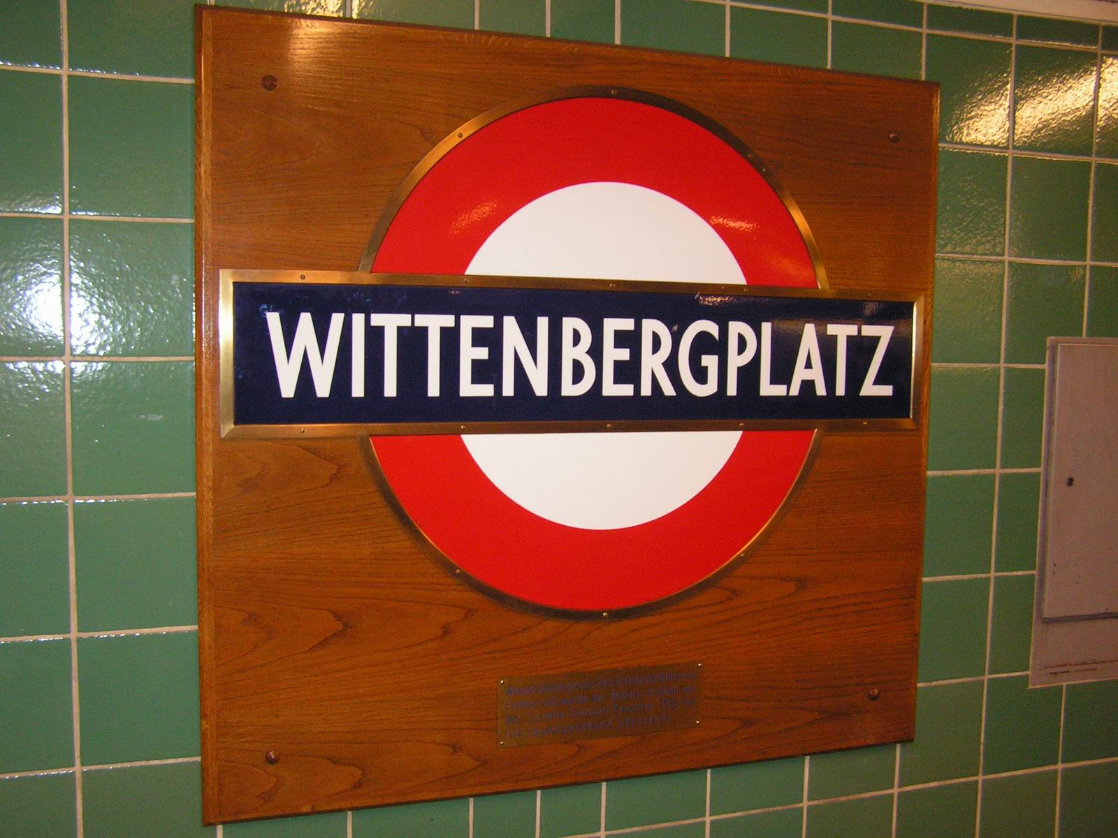 London Tube's sign at Berlin's underground station Wittenbergplatz; Berlin, Germany